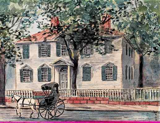 Benedict Arnold's New Haven home, where the Mace and Chain society now resides.